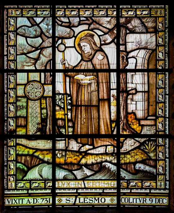 Inserted into St Lesmo's Chapel, c. 1871 - attributed to George Truefitt